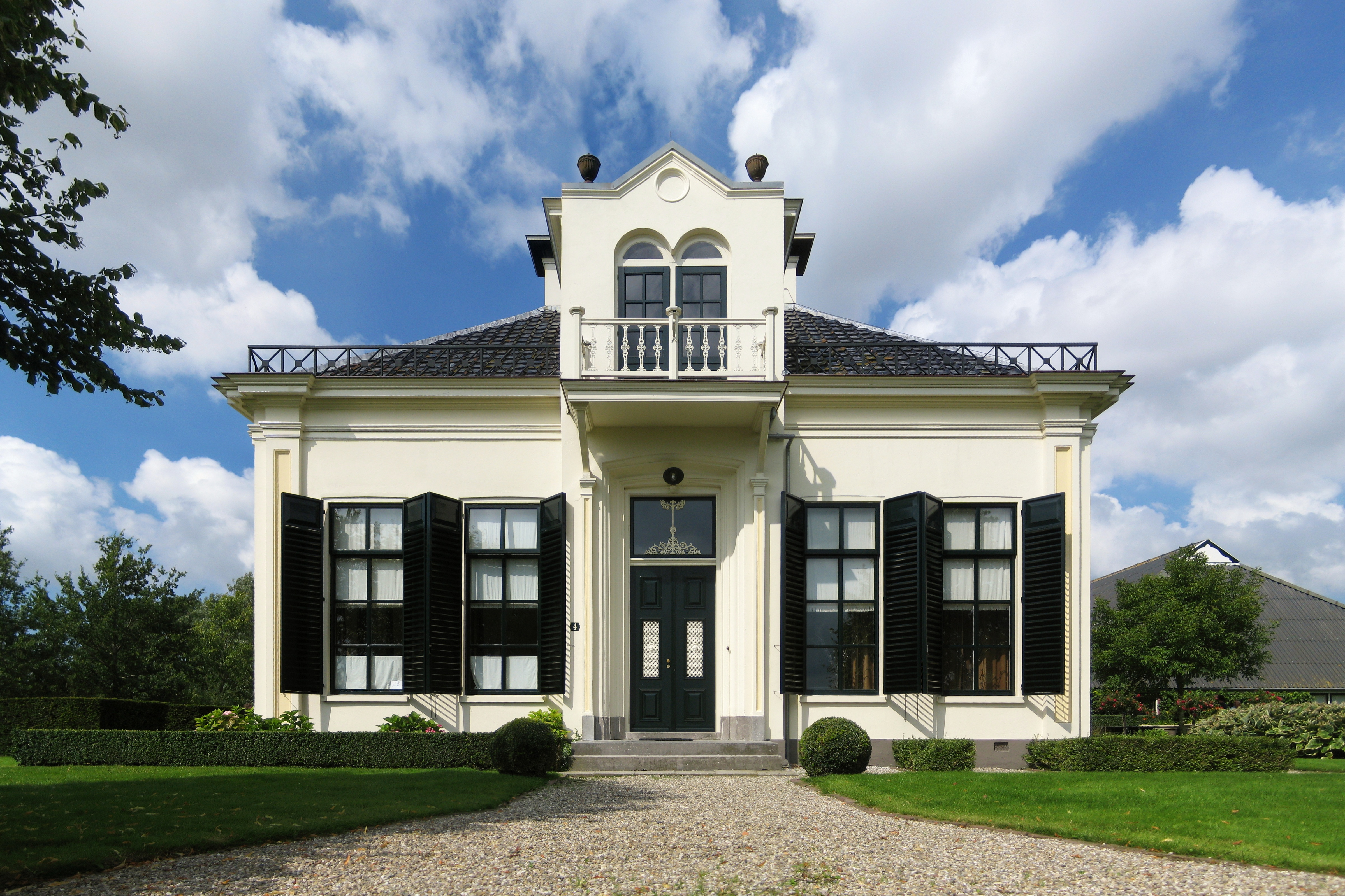 Farmhouse (1864) in Leens, a village in the Dutch province of Groningen.